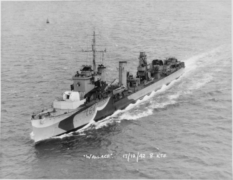 Aerial photograph of British destroyer HMS Wallace.